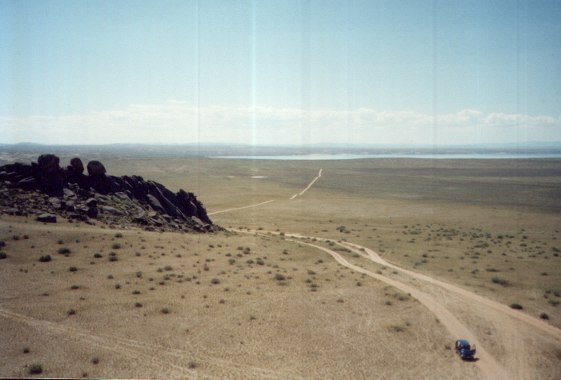 Stones and track to Tere-Hol lake